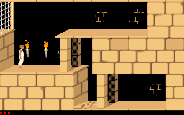 Screenshot from the video game (own work).